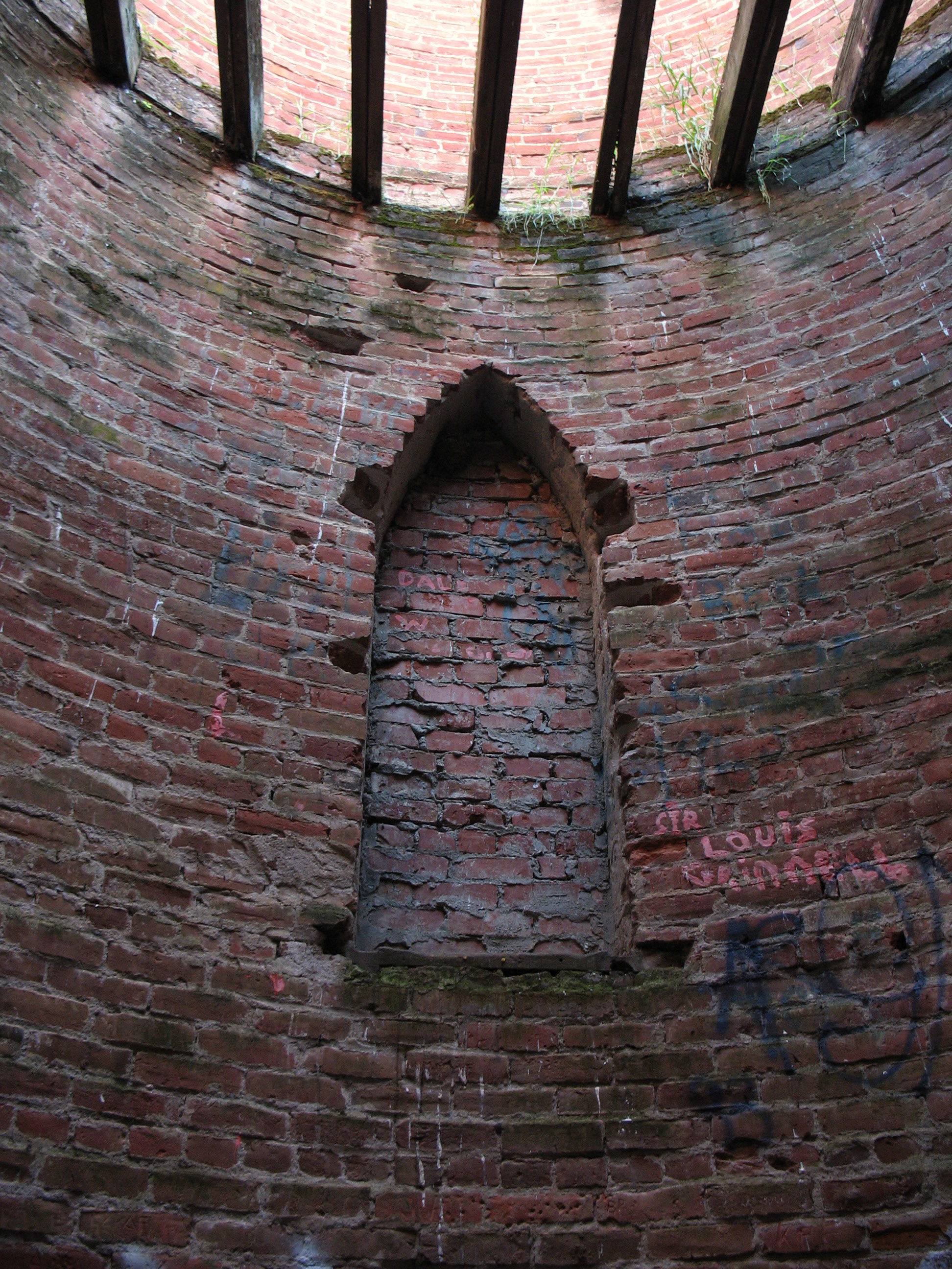 Inside Frenchman's Tower in Palo Alto, California